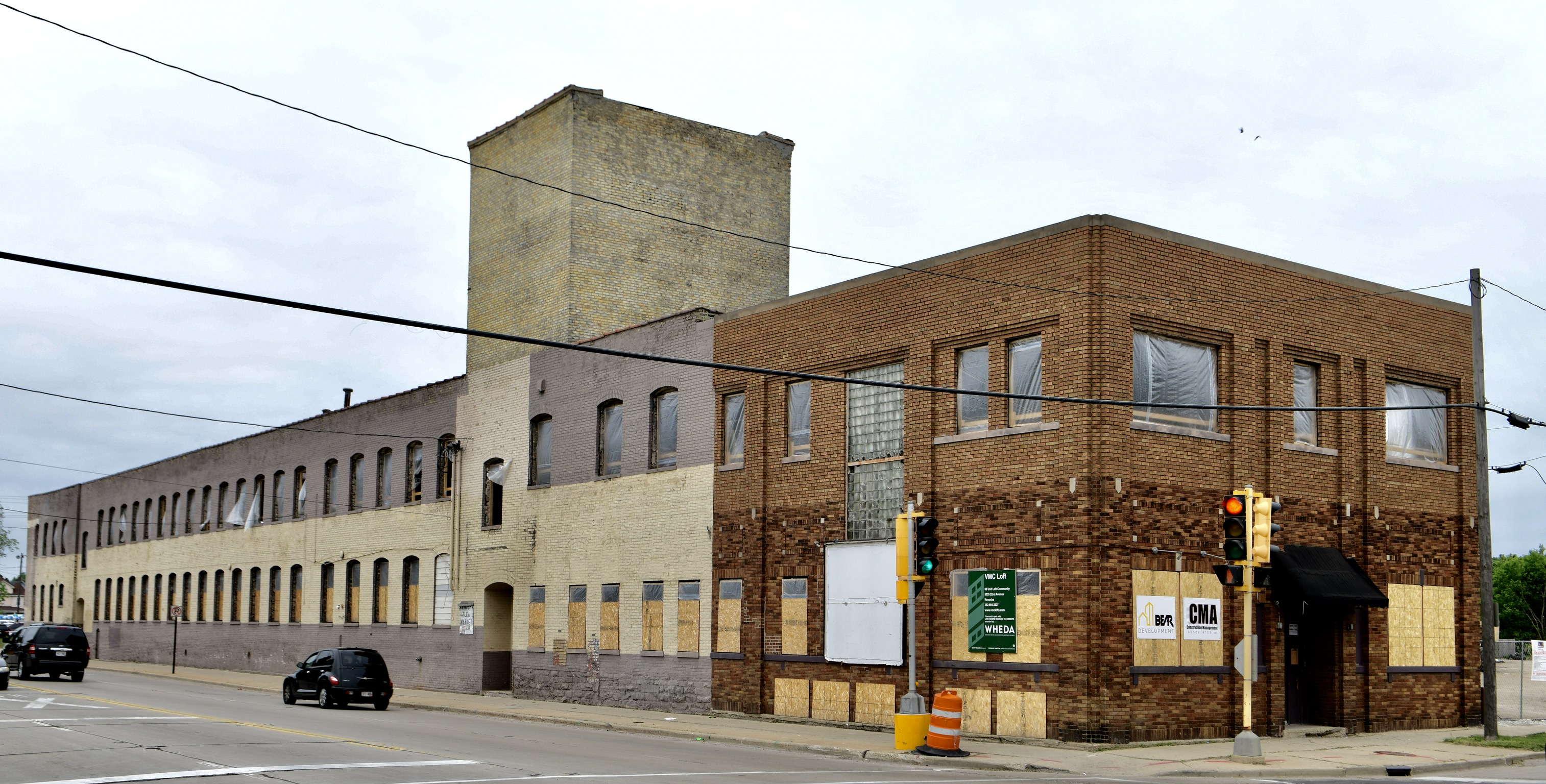 Vincent-McCall Company Building